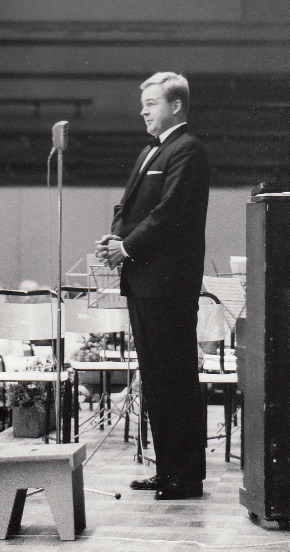 Opera Singer Gunnar Lundberg, Stockholm. Idrottshallen August 24, 1963.